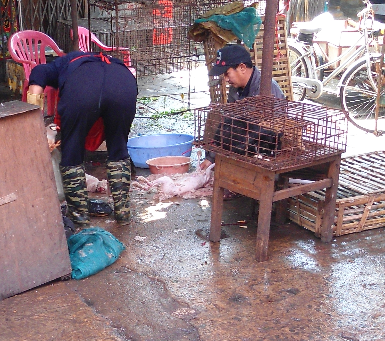 Rabbit after slaughter, fur being removed. This rabbit was just submerged in boiling water for a few seconds after being killed. This loosens the fur, making it easier to remove. Image taken at an East Asian market.